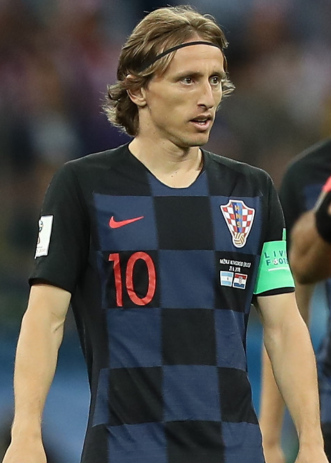 Croatian footballer Luka Modric